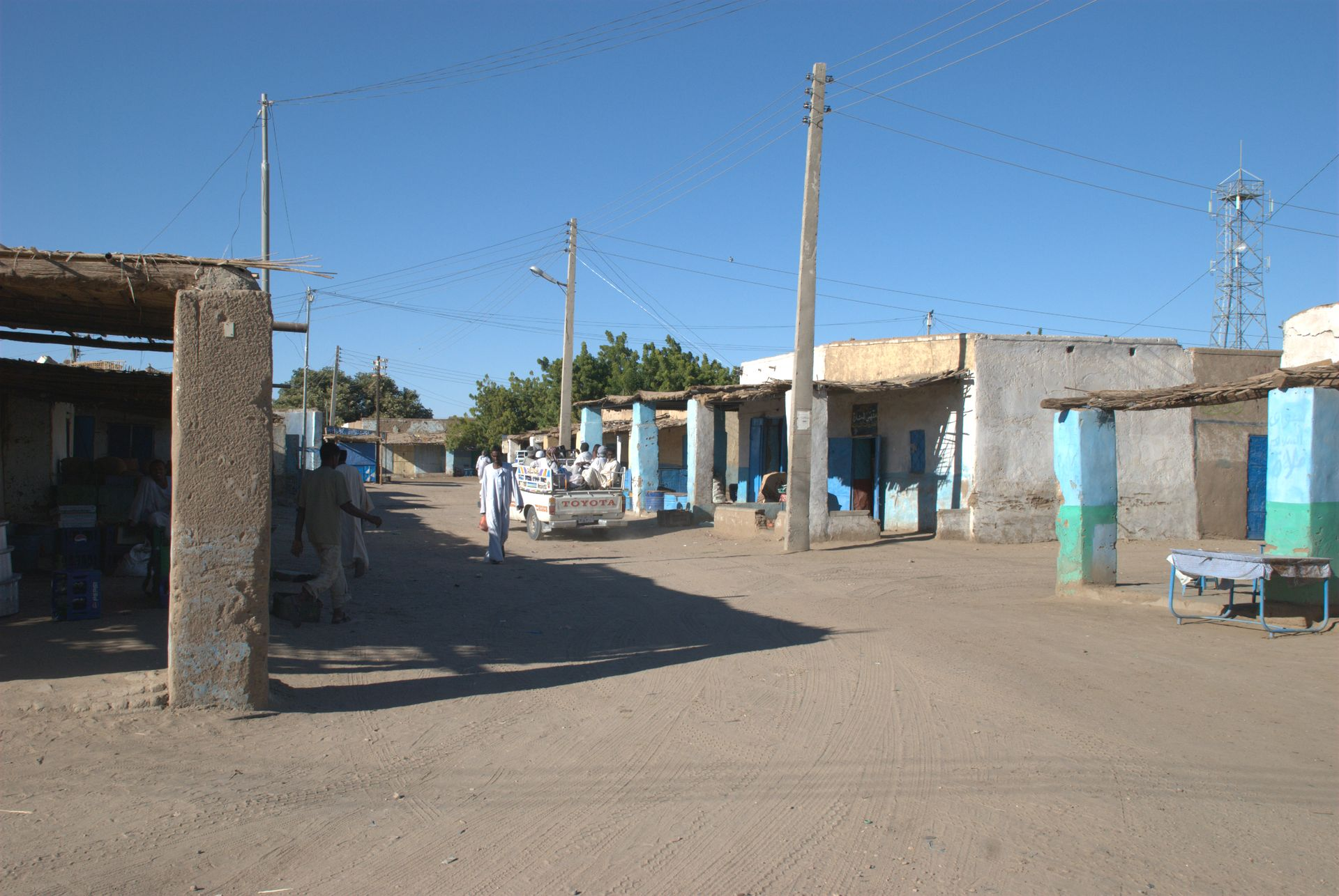 Abri, Sudan, center of town